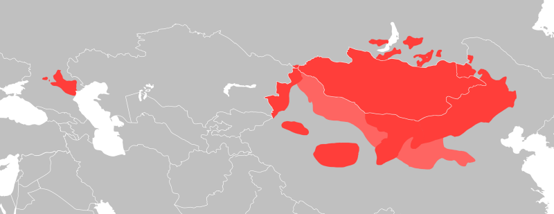 Map of Mongolian Speakers with Modern borders